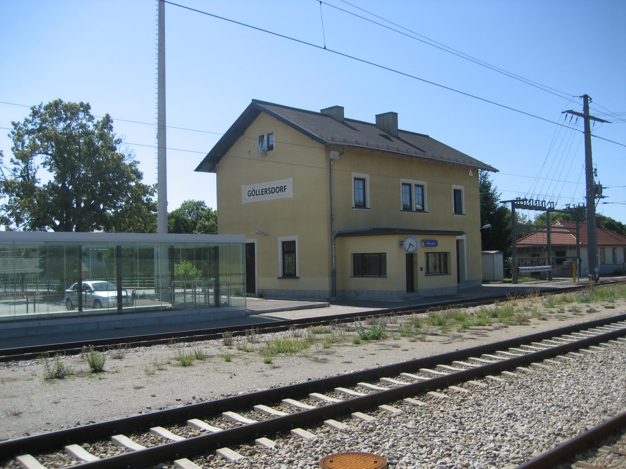 train station Göllersdorf, Lower Austria